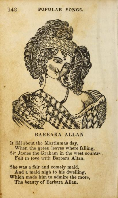 Scan of the first page of "Barbara Allen" as printed in the Forget-Me-Not Songster circa 1840.